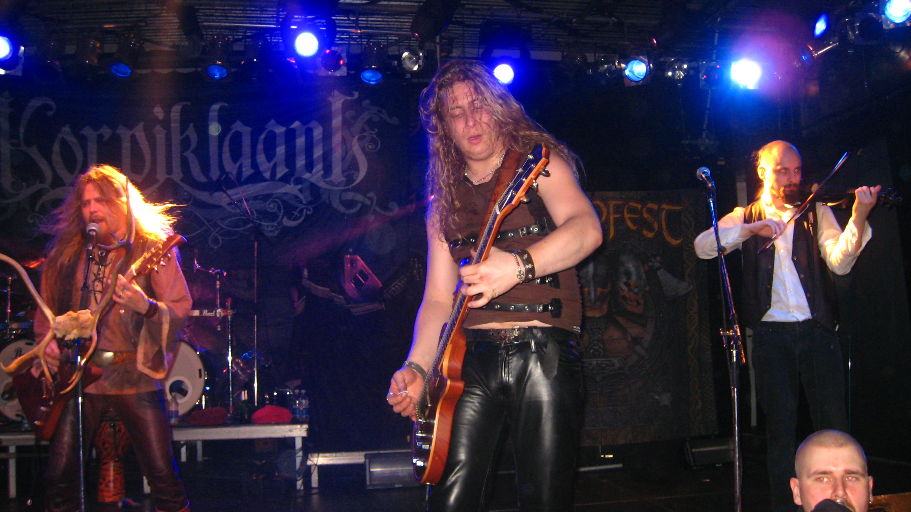 Jonne, Cane and Hittavainen, members of the metal band Korpiklaani, at Paganfest Europe 2008 in Munich, Germany.